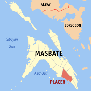 Map of Masbate showing the location of Placer